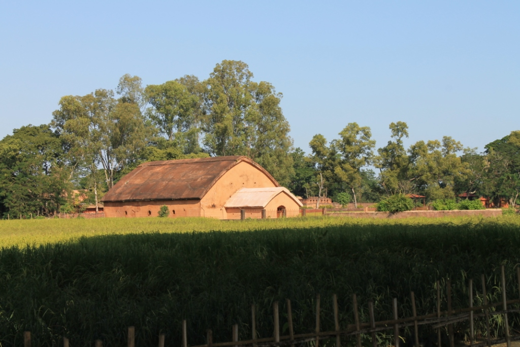 Golaghar or Magzine House, Joysagar District Sibsagar